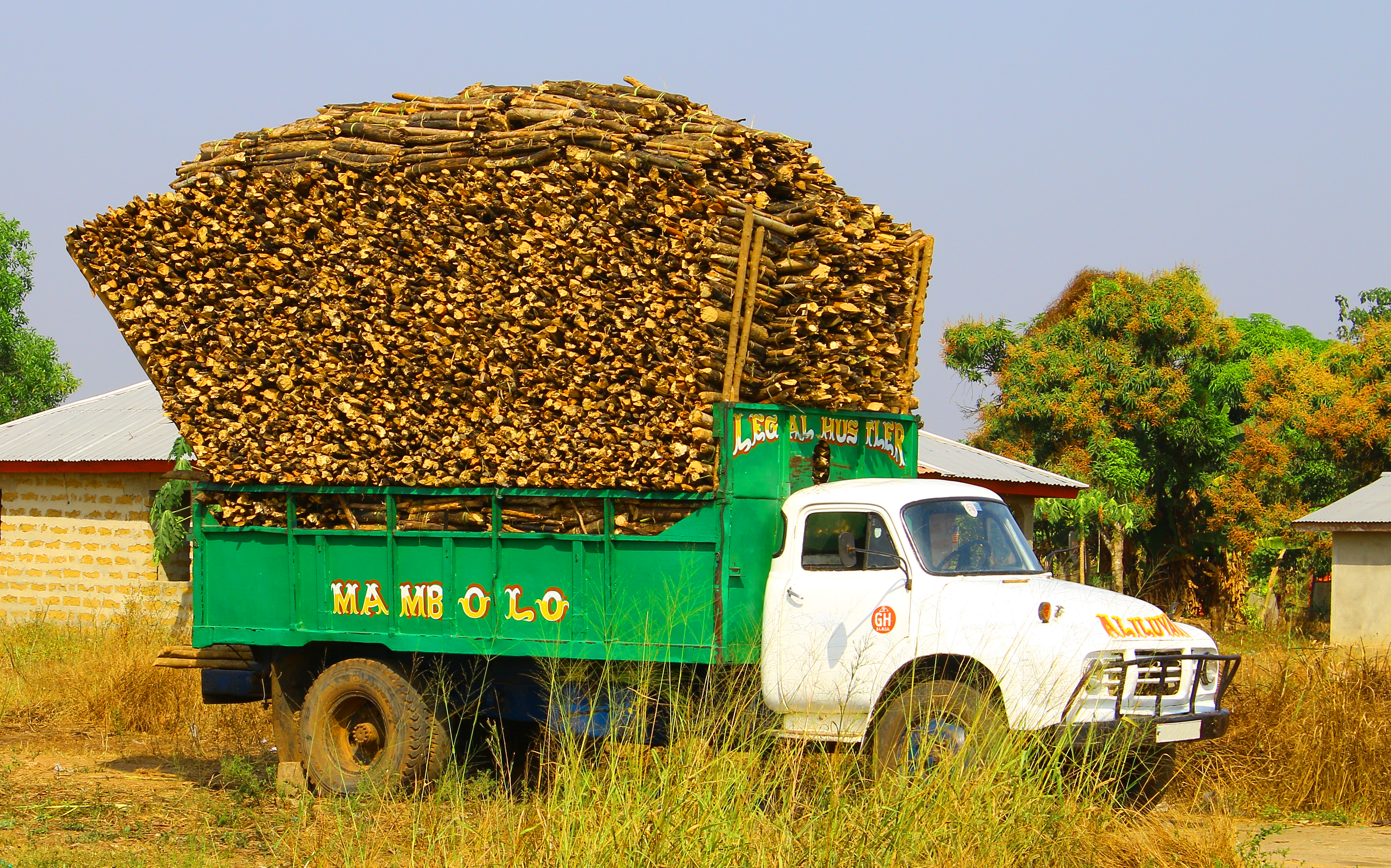 a Truck loading firewood This is an image with the theme "Africa on the Move or Transport" from: Sierra Leone